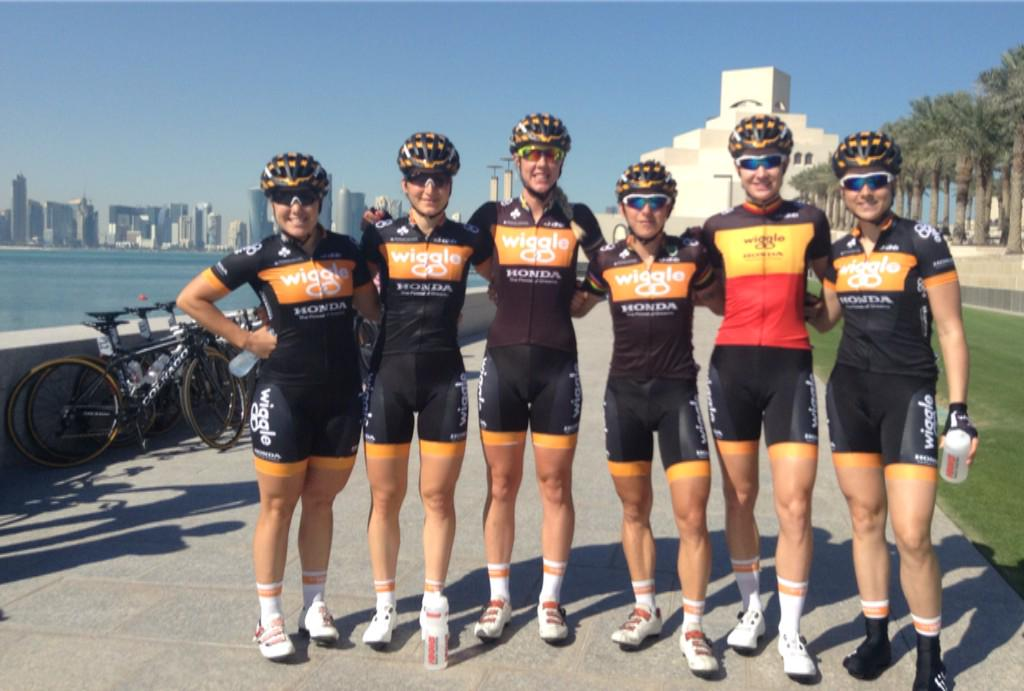 2015 Ladies Tour of Qatar